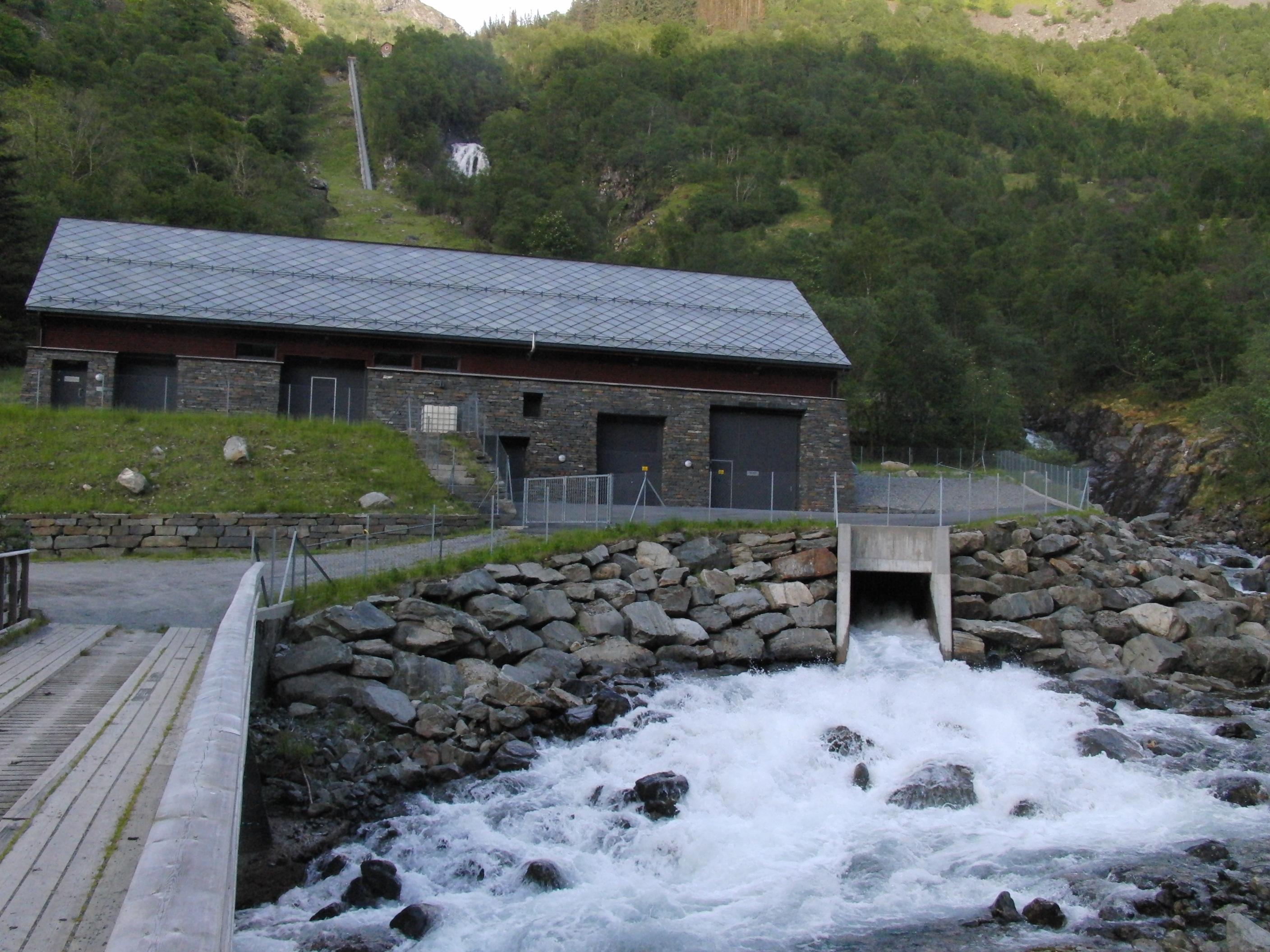 Hattebergsdalen kraftverk og vannbehandlingsanlegg